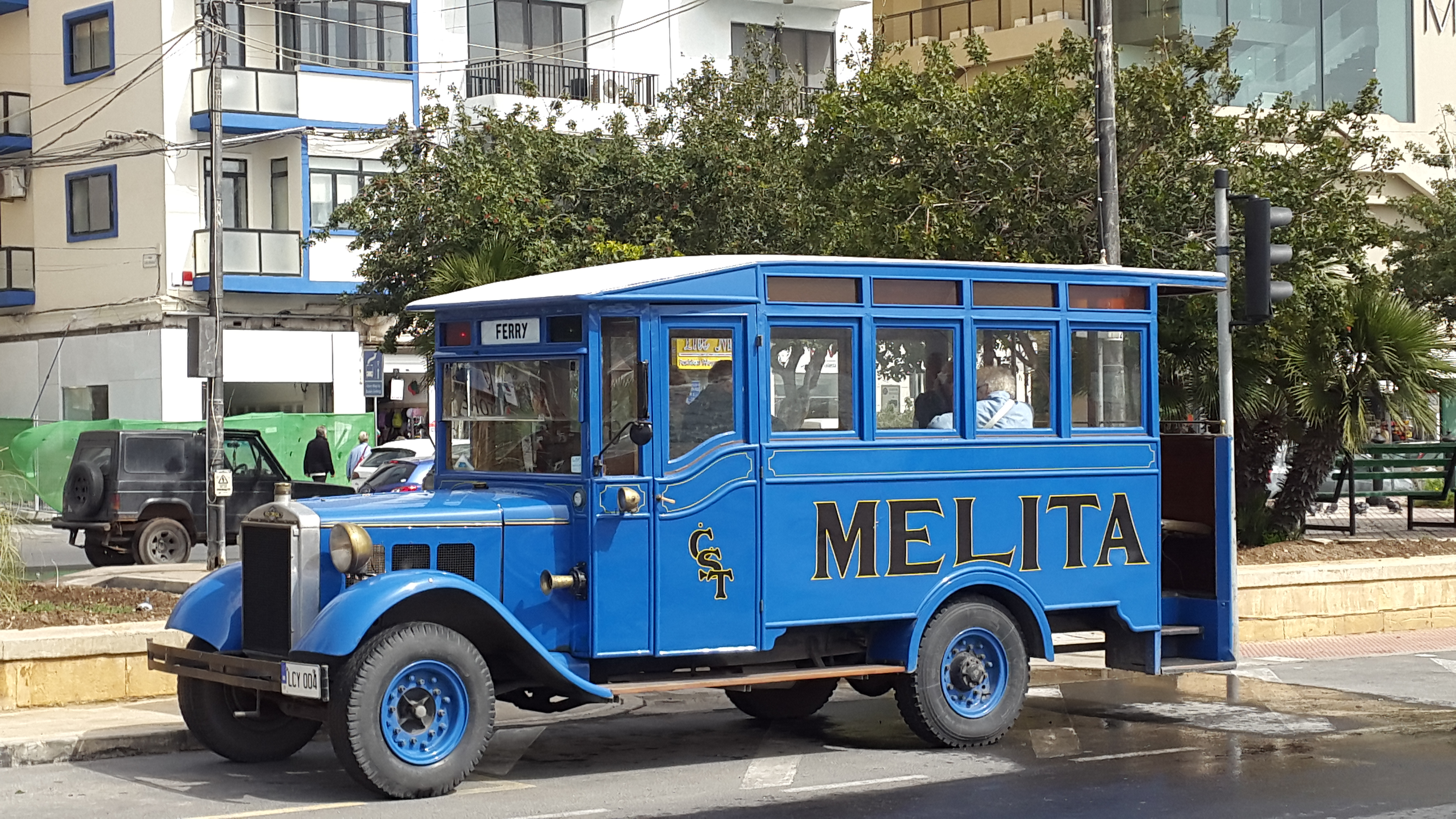 Bus in Sliema, Malta